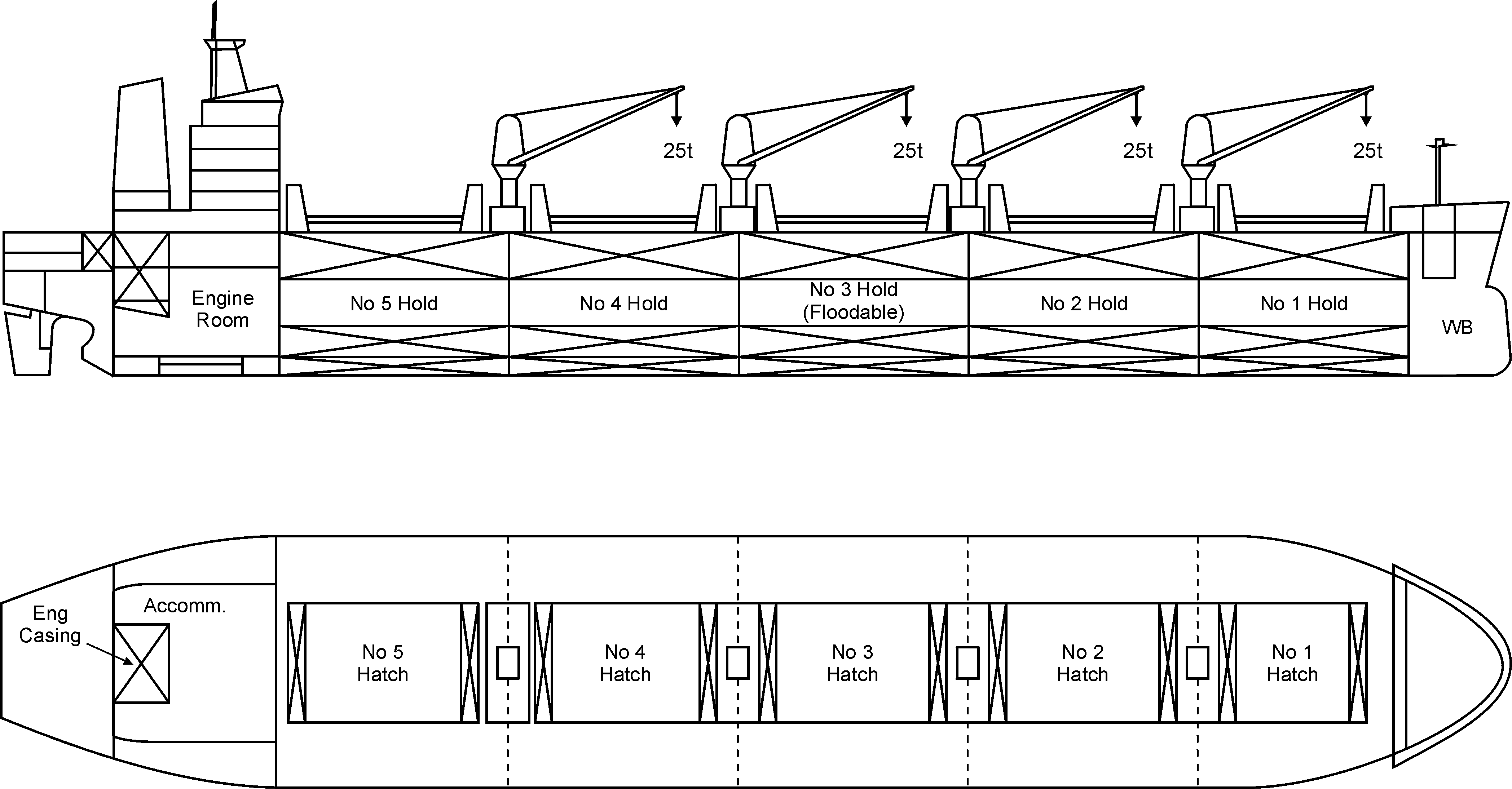 General arrangement of a Panamax geared bulk carrier, showing typical features (aft engine room, hold arrangements...)